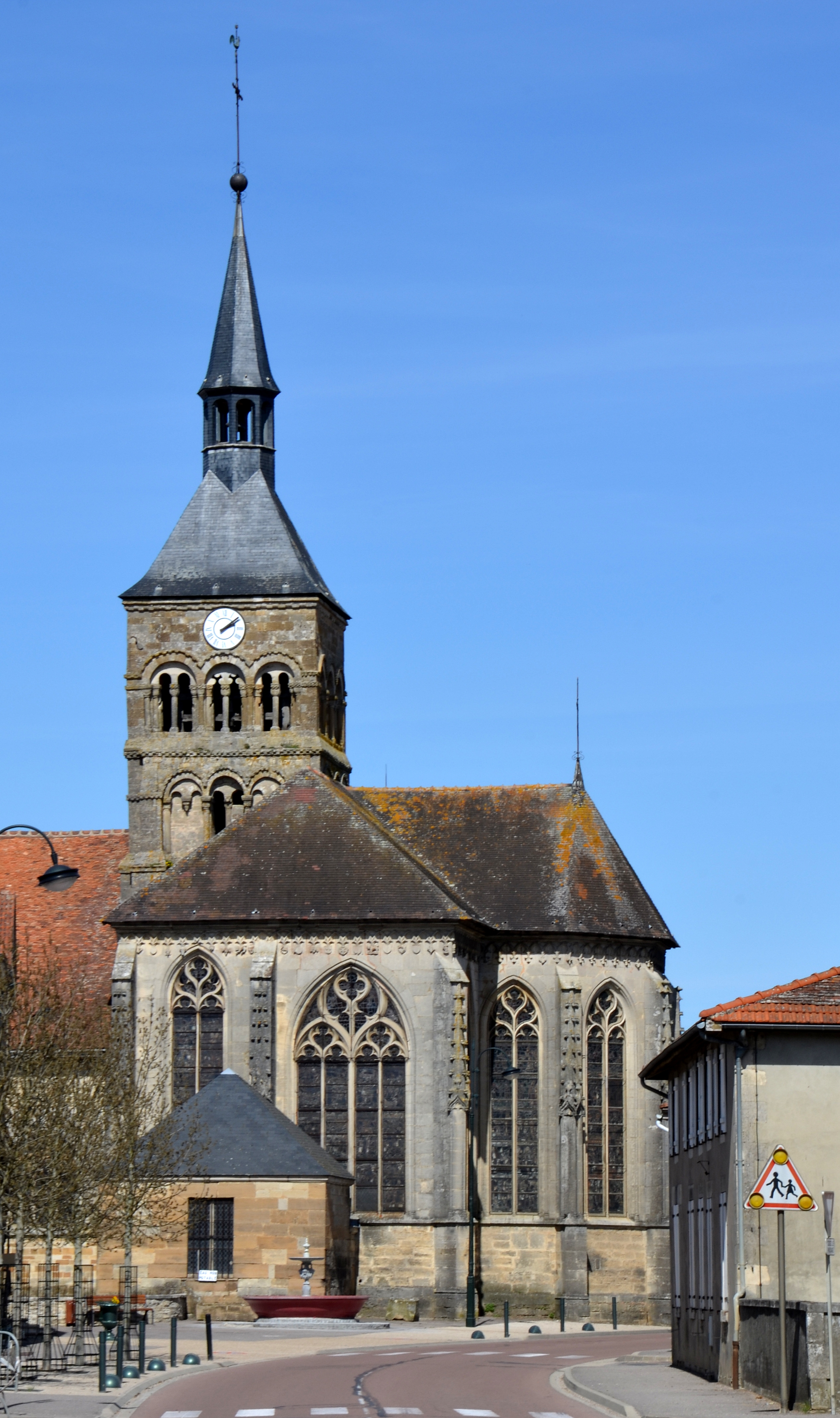 Church of Ceffonds, Haute-Marne, Champagne, France